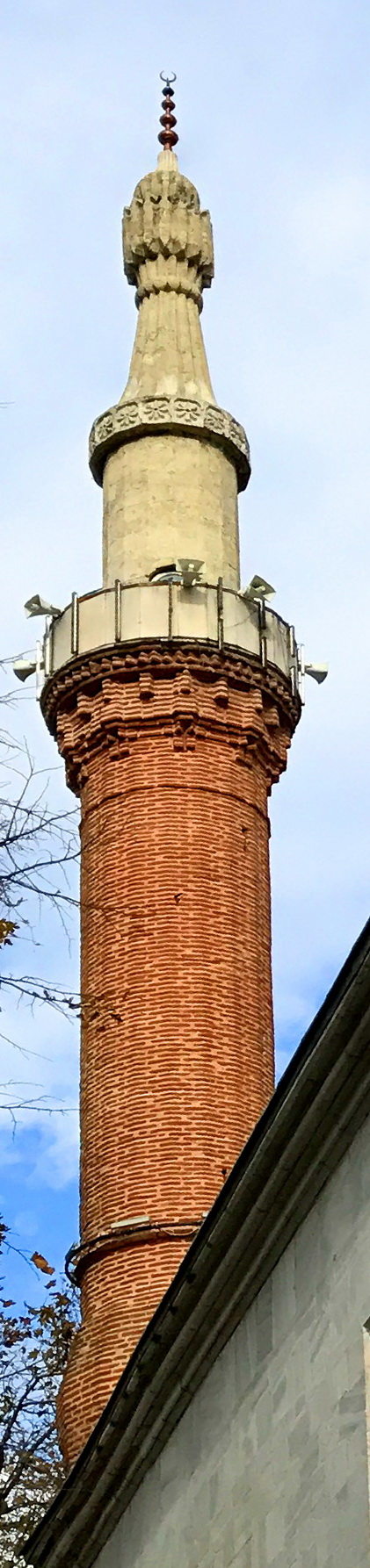 Green Mosque of Bursa, Turkey, 2017. Green Mosque (Turkish: Yeşil Camii, "Yeşil Mosque"), also known as Mosque of Sultan Mehmed I, is a part of the larger complex (a külliye) located on the east side of Bursa, Turkey, the former capital of the Ottoman Turks before they captured Constantinople in 1453. The complex consists of a mosque, türbe, madrasah, kitchen and bath.